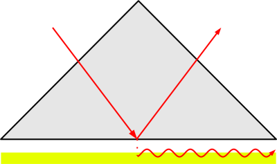 Otto configuration of SPR measurement.